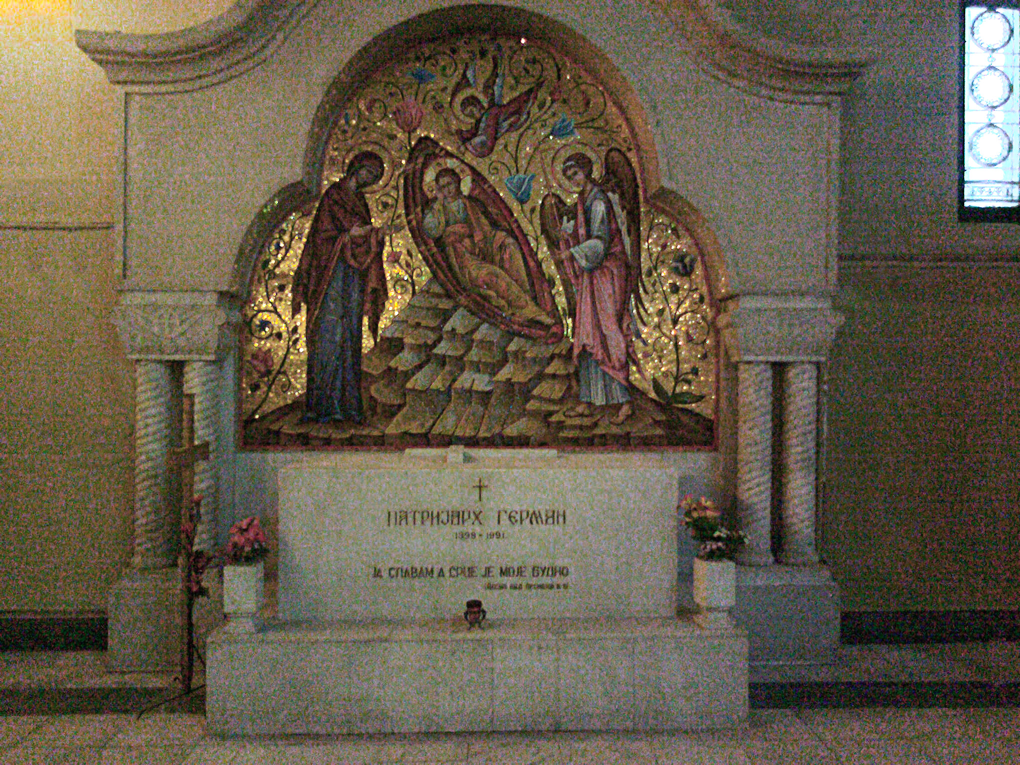 Grave of Patriarch German of Serbia in Belgrade's St. Mark's Church